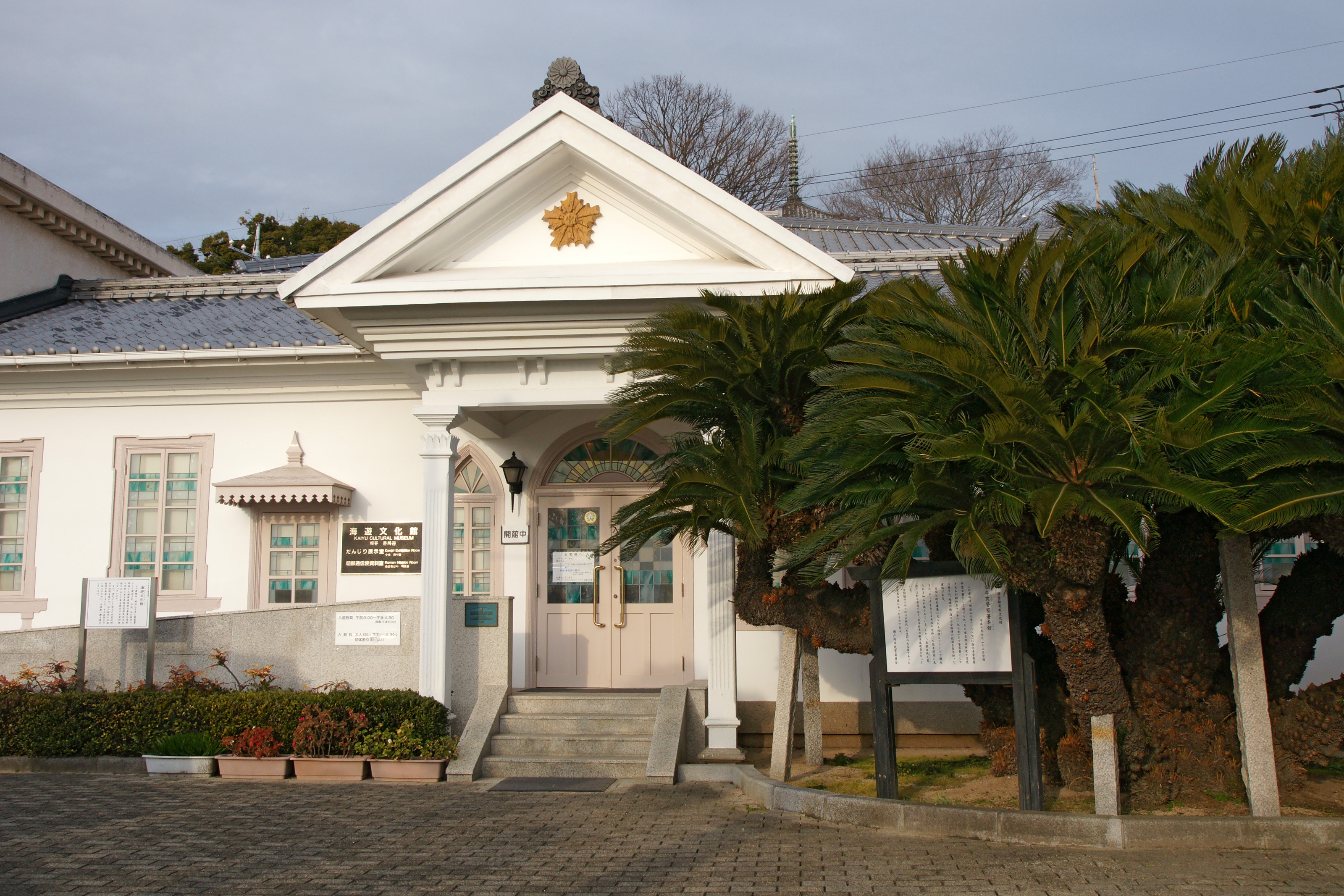 Kaiyu Culturel Museum in Ushimado, Setouchi, Okayama prefecture, Japan